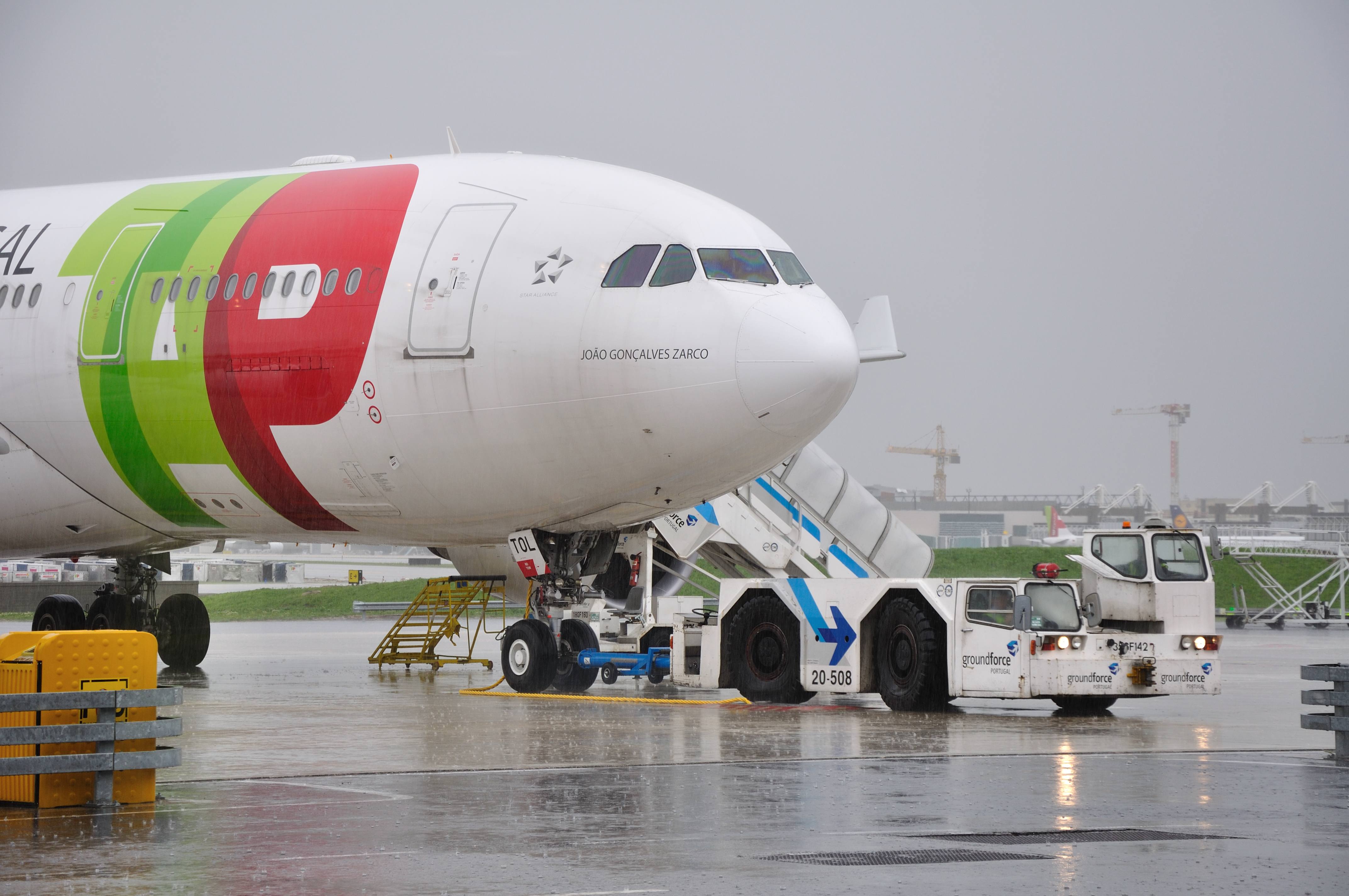 Portugal, Portela de Sacavem Airport (LIS / LPPT) on a very wet day